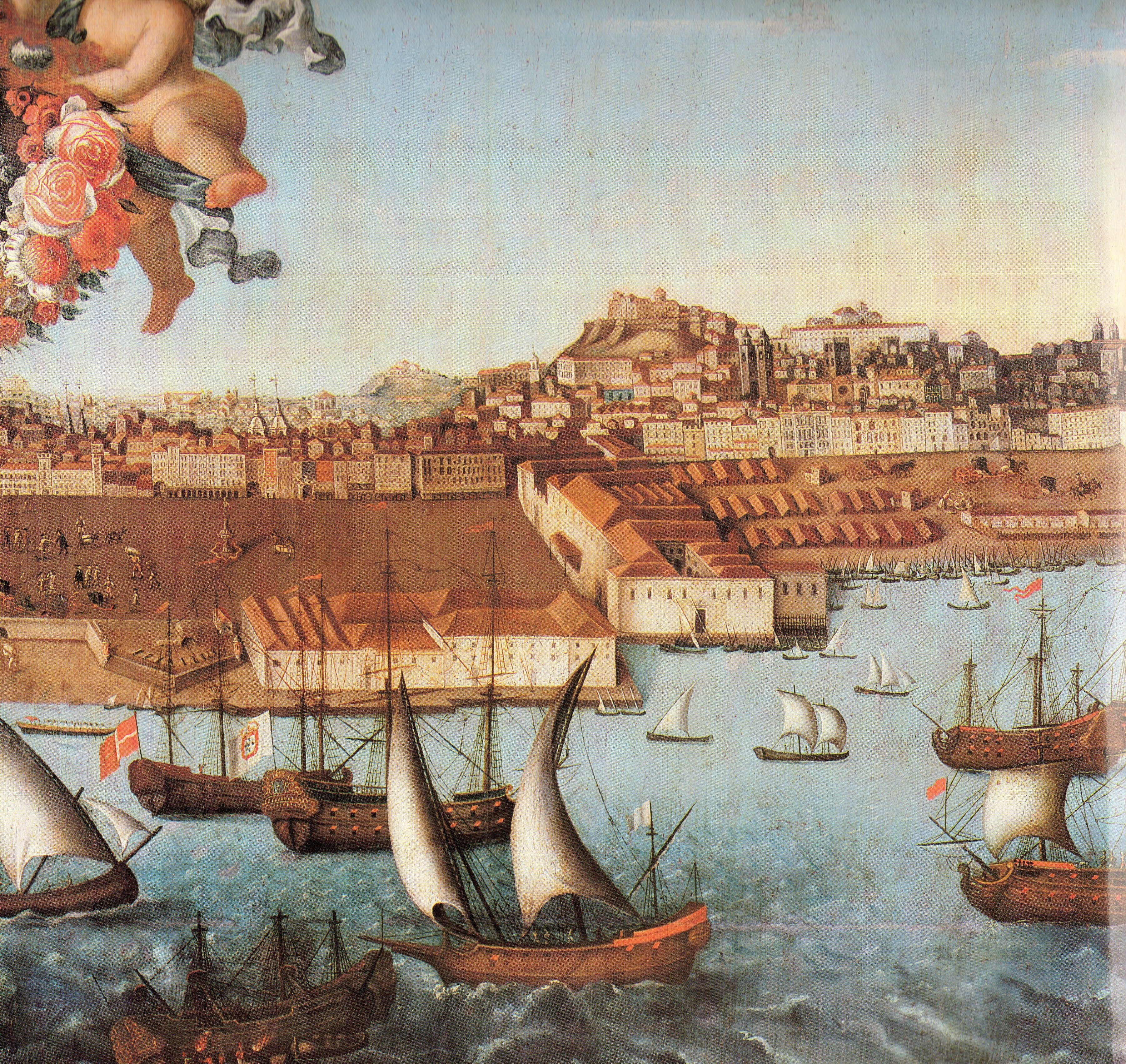 Detail of a panoramic view of Lisbon circa 1730 by an unknown artist.